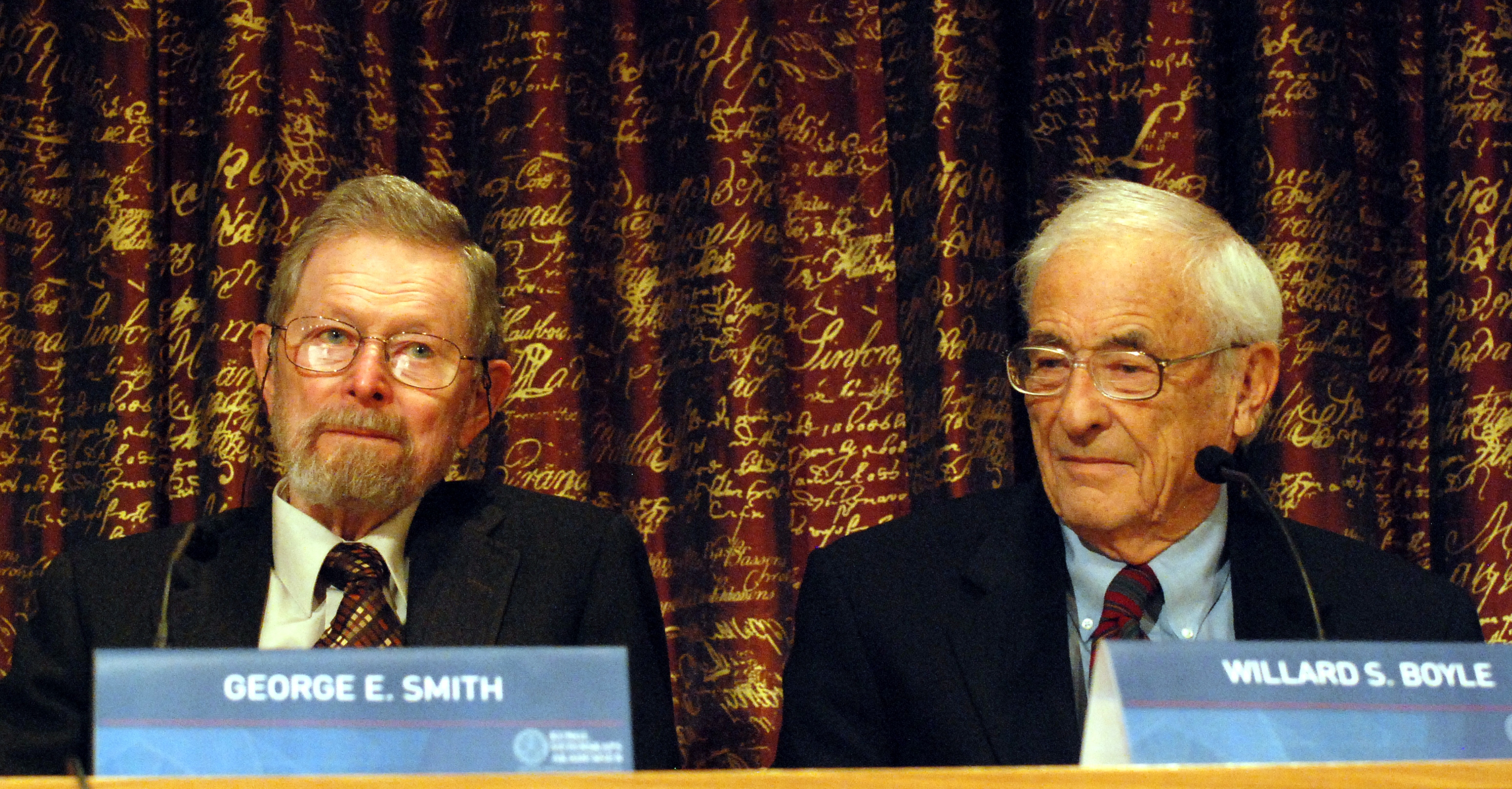 Nobel Prize 2009, press conference with the laureates of the Nobel prize in physics, George E. Smith and Willard Boyle, at the KVA.